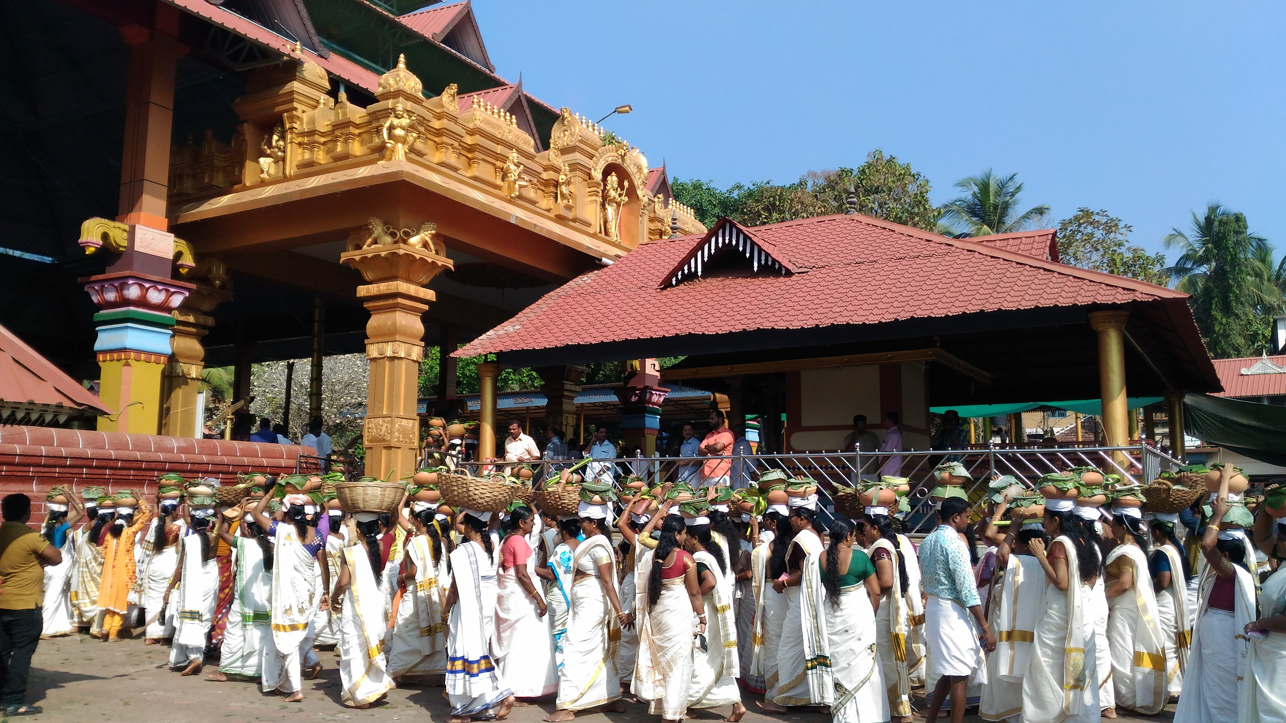 Procession for Kalam Kanippu